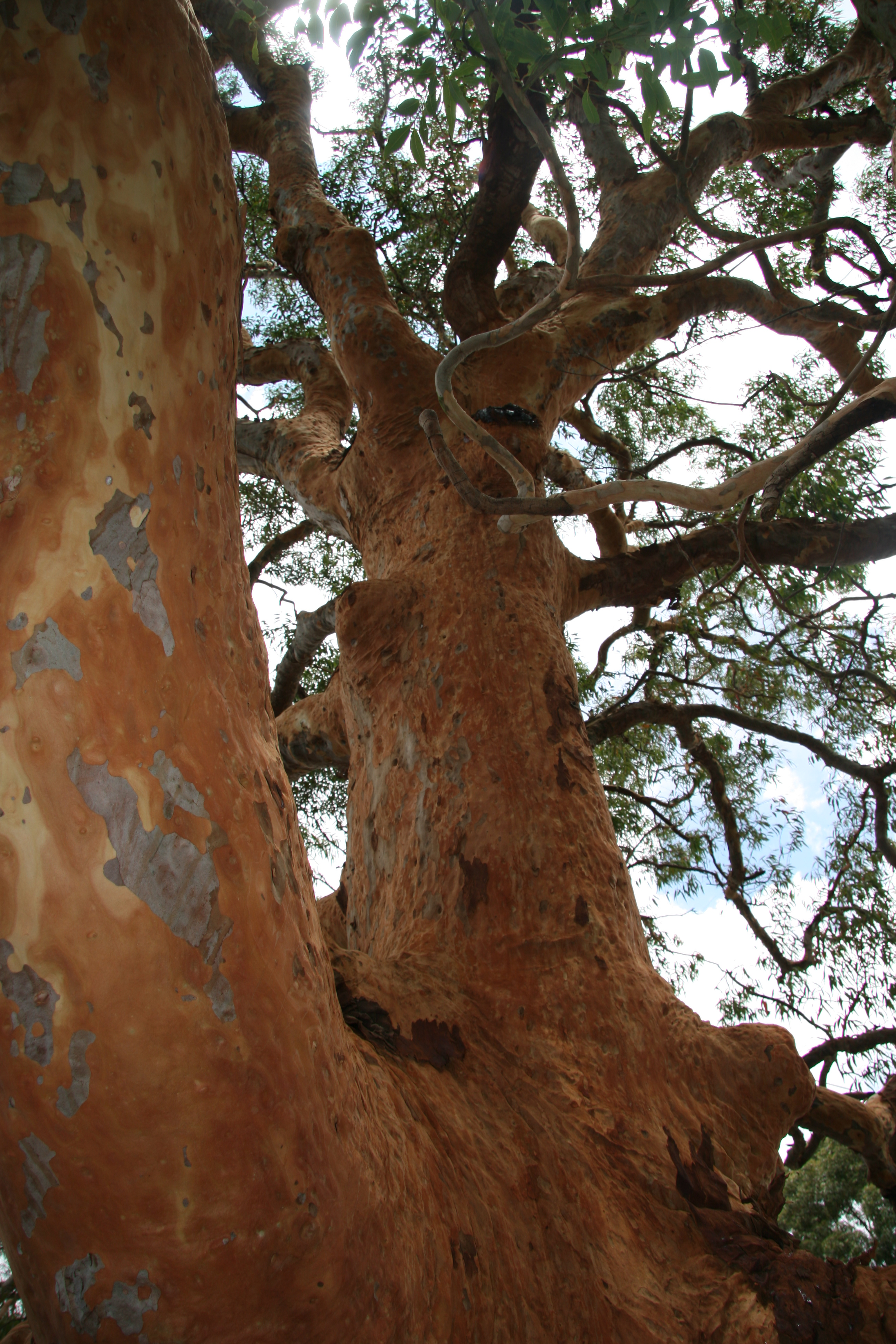 Large Angophora costata on nature strip of Pittwater rd, 250 m sth of Epping Rd